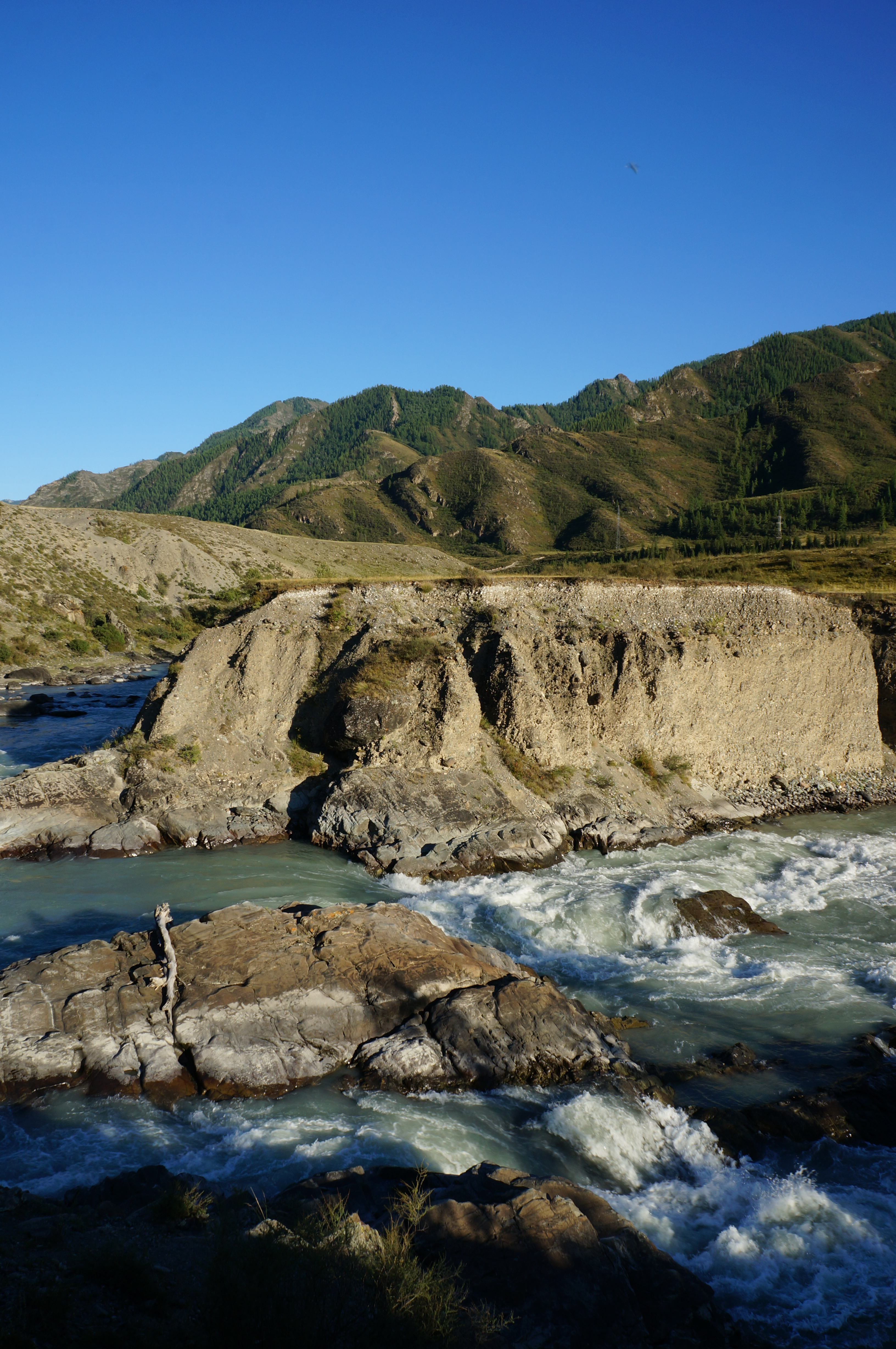 The Turbina Rapid on Chuya River, 4th category (Altai Republic, Russia, August 2014)